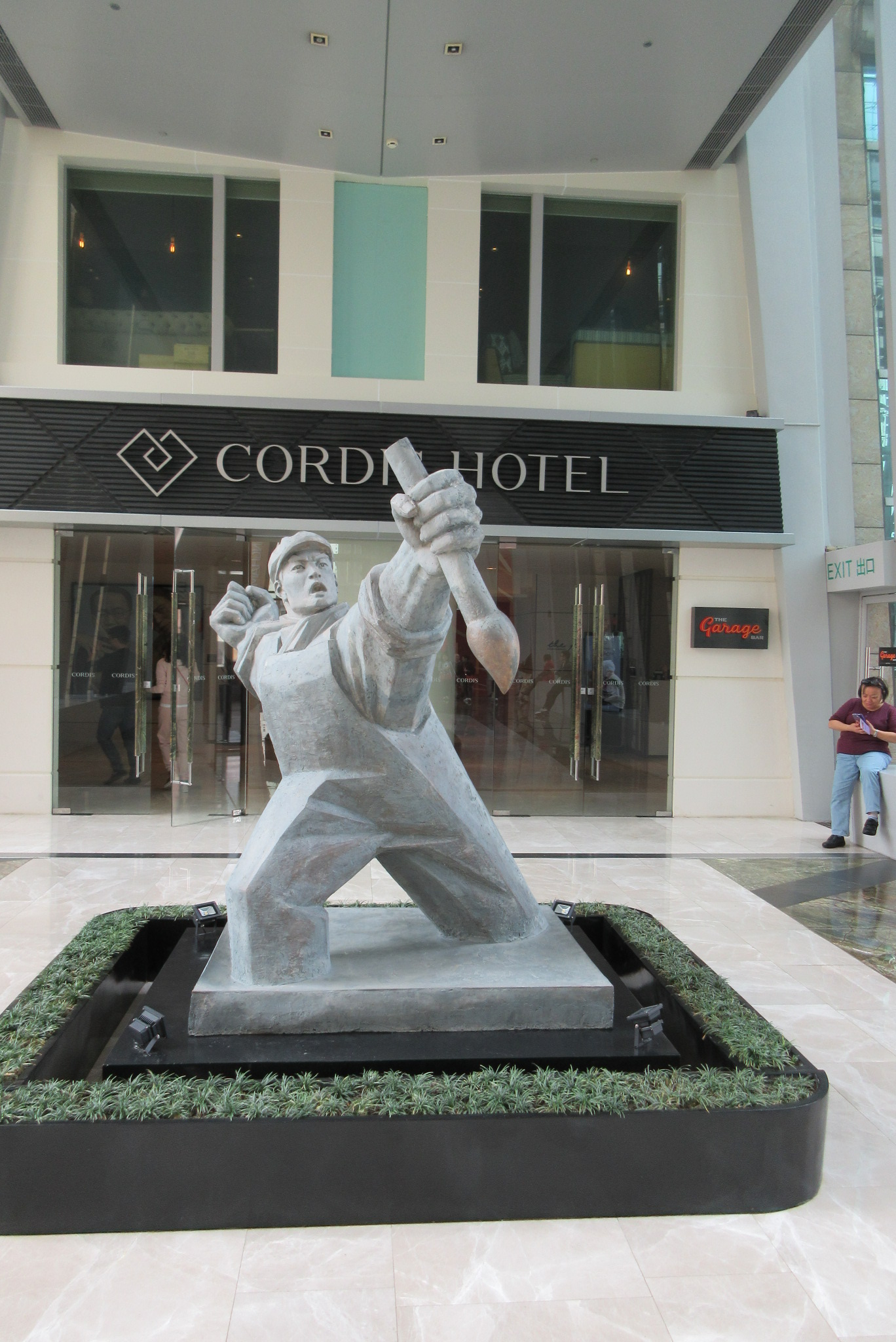 HK 旺角 Mongkok 朗豪坊 Langham Place 香港康得思酒店 Cordis Hotel skyway interior in Feb 2017